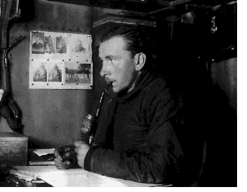 Alfred Wegener (1880 - 1930), German meteorologist and important contribitor to the theory of continental drift, in the winter of 1912-1913 at Greenland